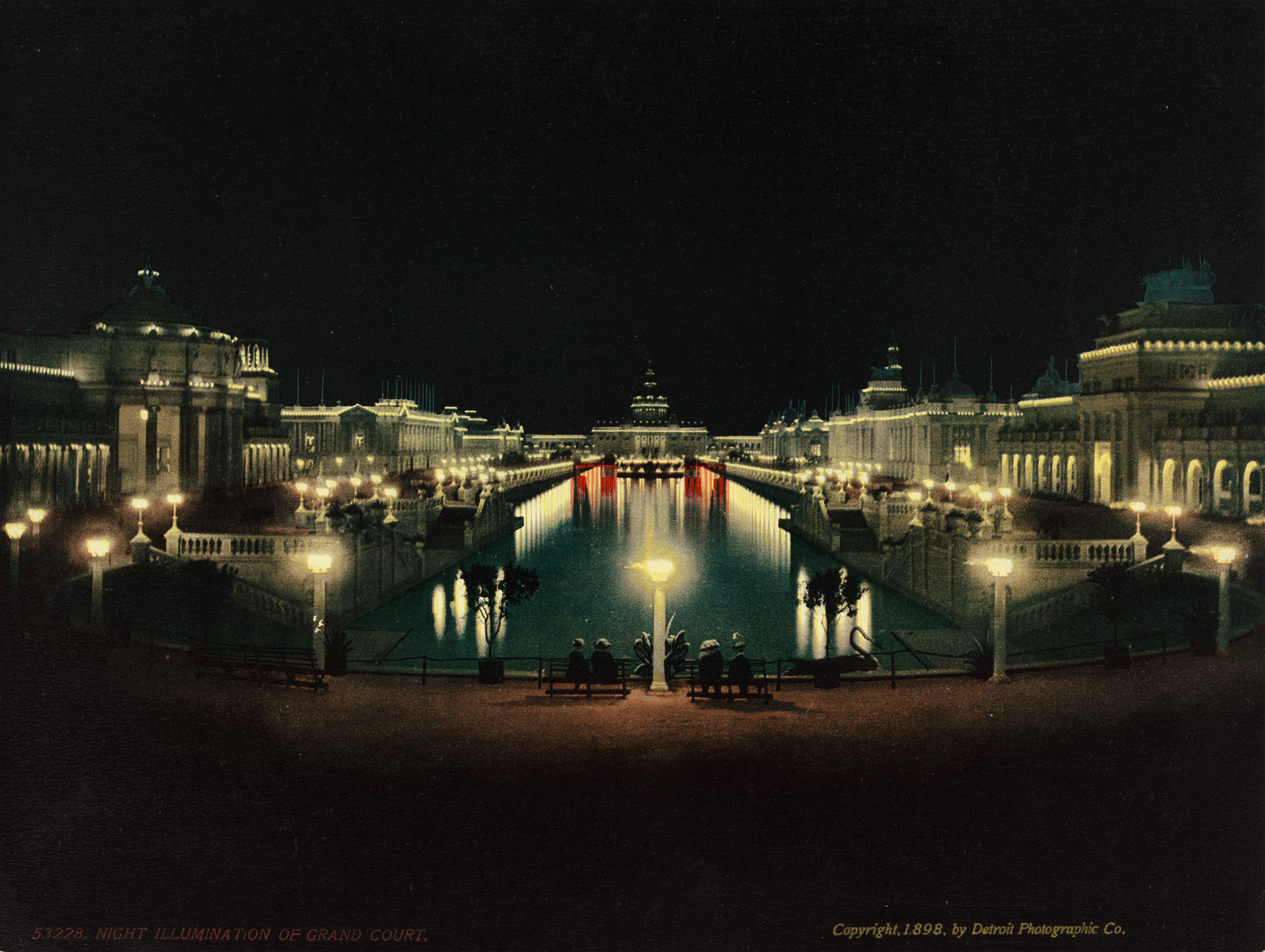 Photochrom print of the Grand Court of the Trans-Mississippi and International Exposition